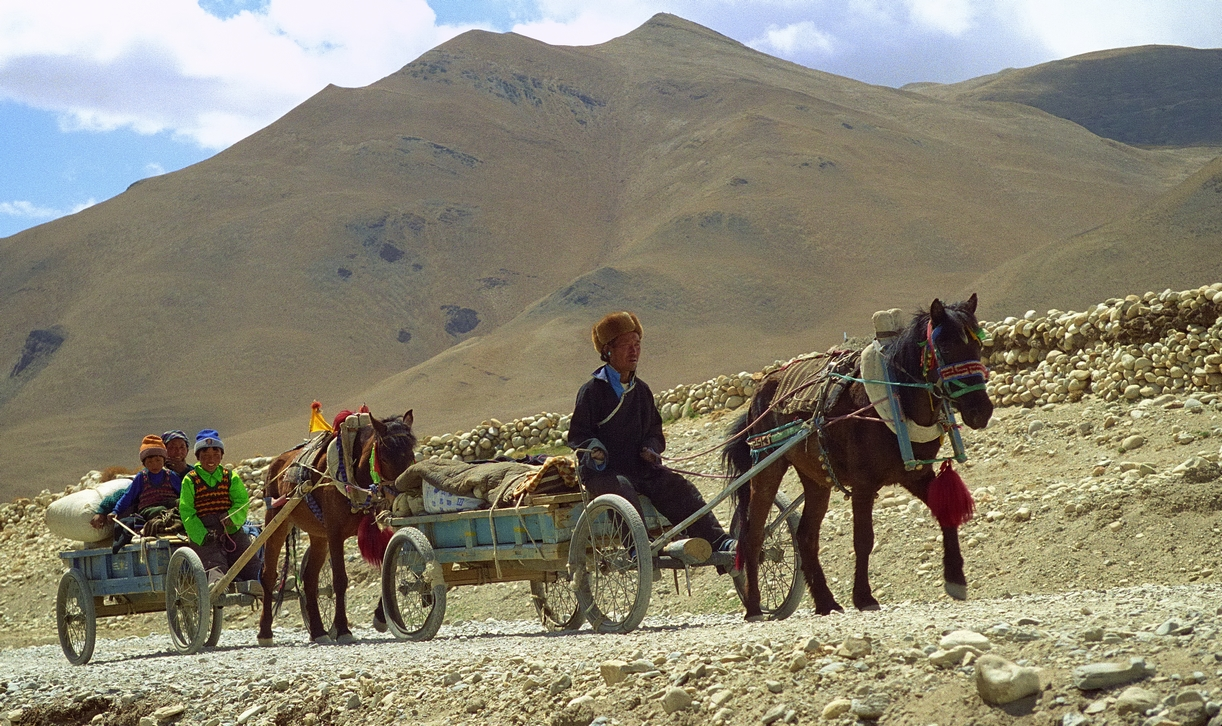 See LARGER for the Repaired wheels Tibetans have a hard live out here,I admire these people.